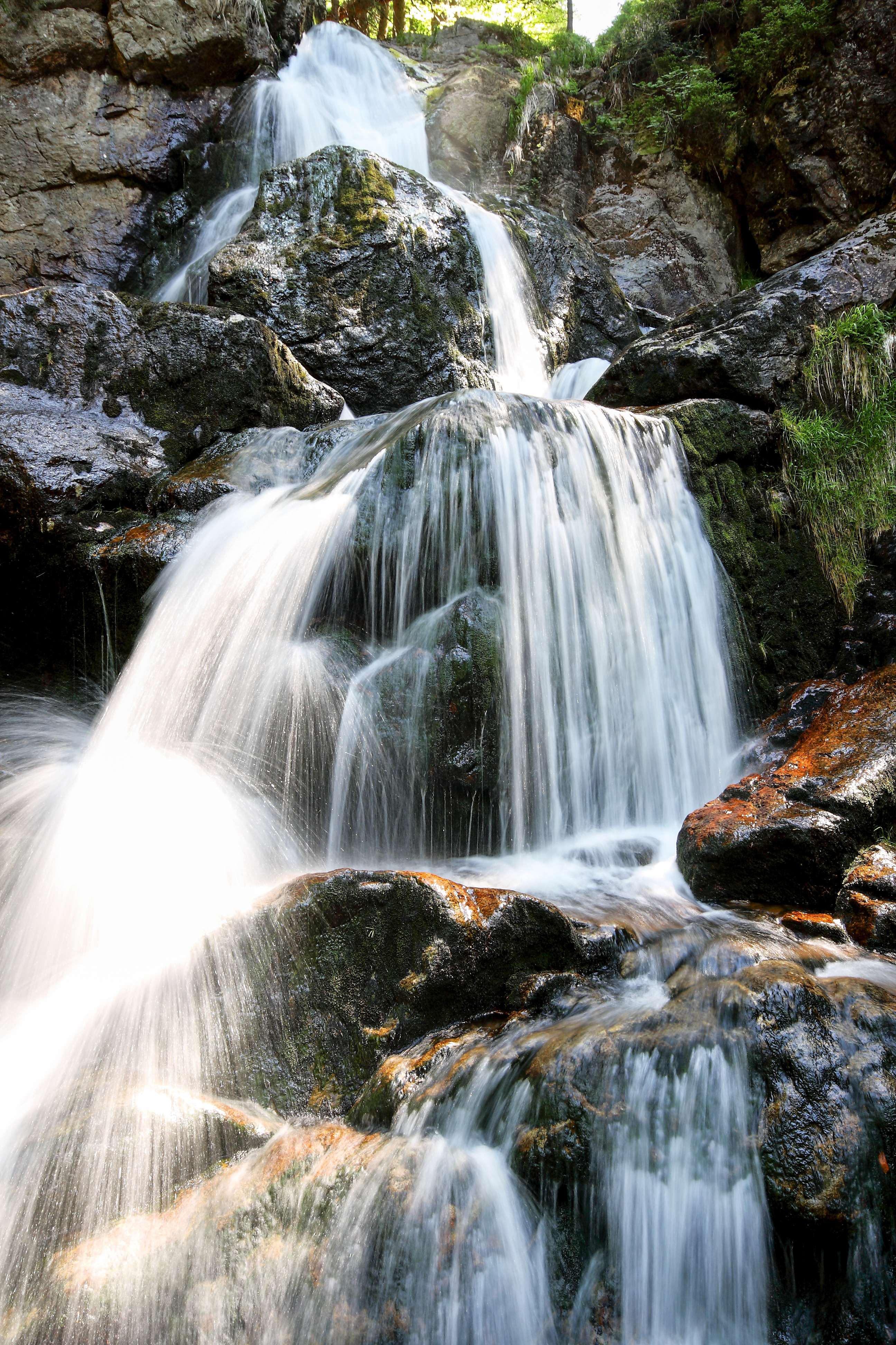 Last and Uppermost part of the Riesloch cascade, as approached from the parking lot.